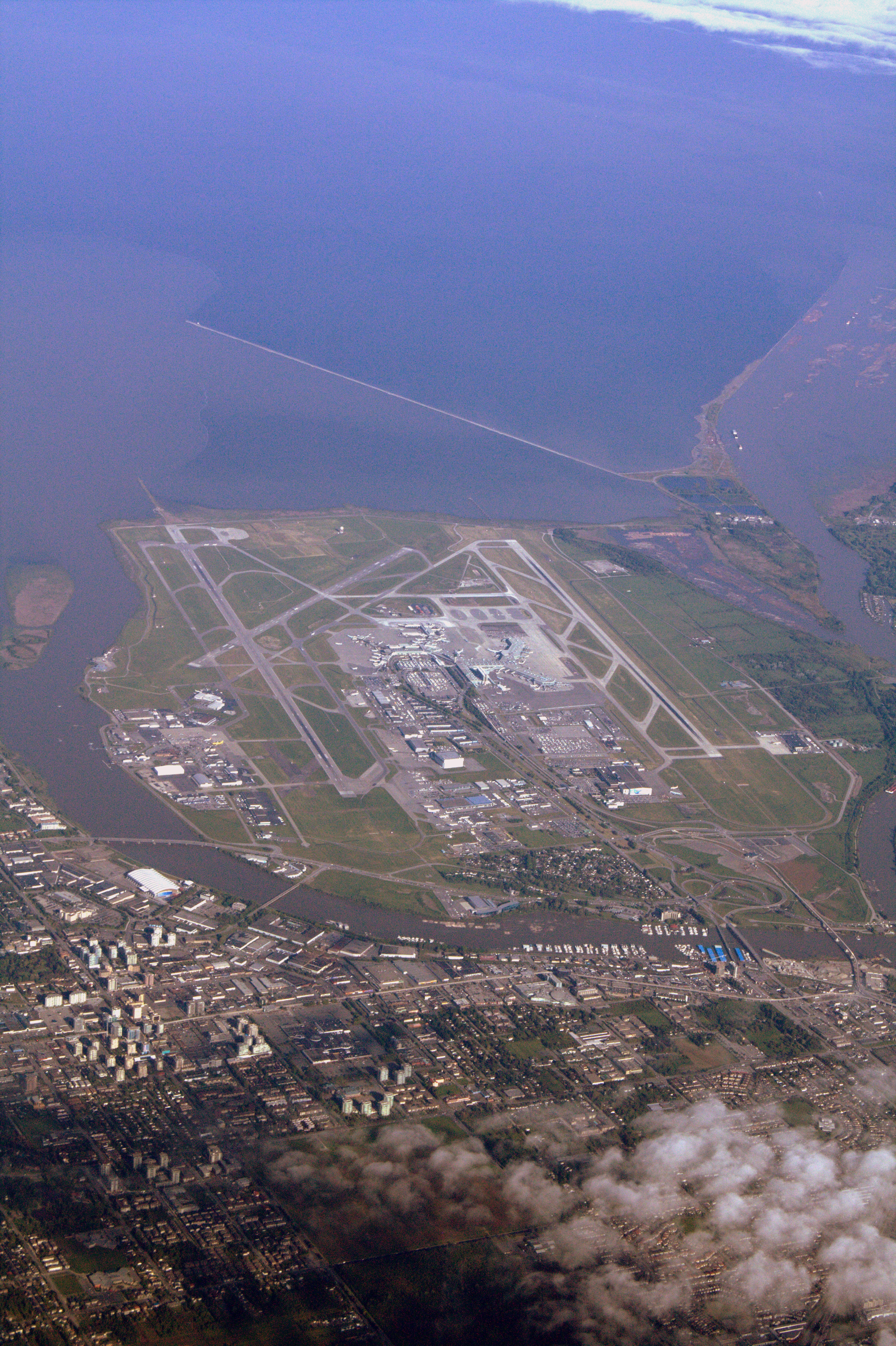 View of Vancouver International Airport and Sea Island from the air.